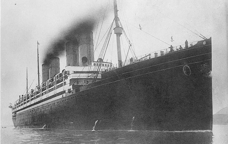 SS Kronprinzessin Cecilie entering Bar Harbor, Maine, in August 1914